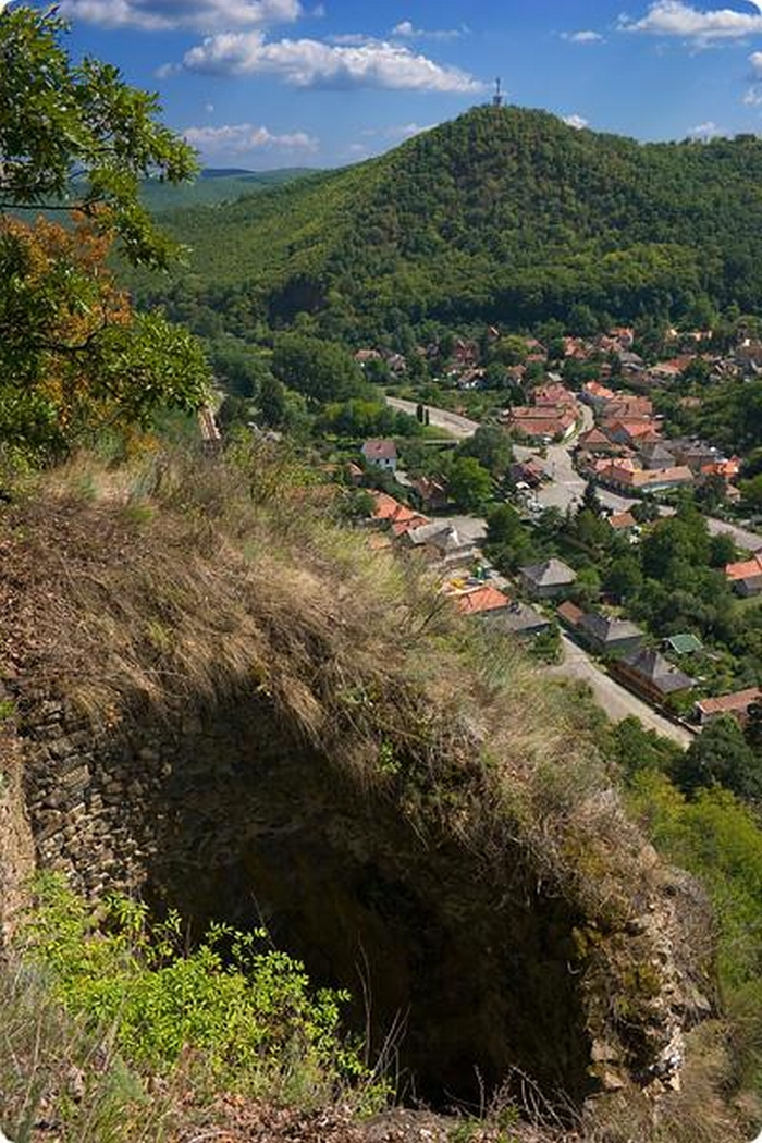 Tower remains of the Szarvaskő Castle and panorama to the village